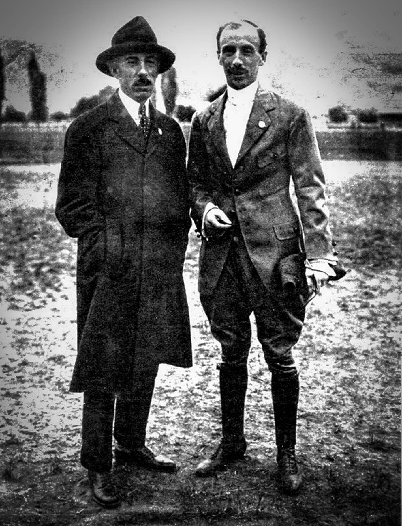 Albert Santos-Dumont (with hat and hands in his pockets) standing next to aviator Eduardo Bradley. Circa 1916